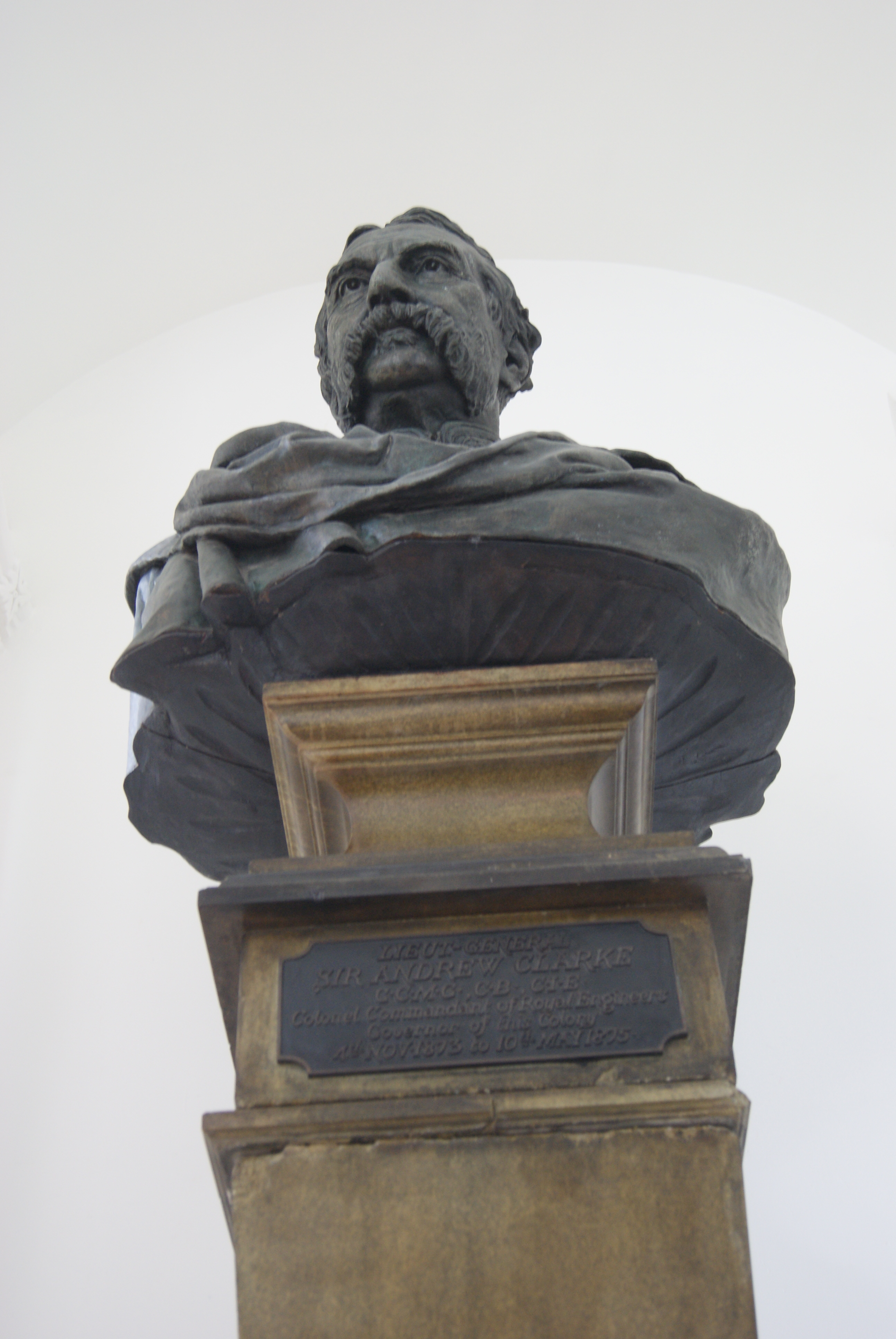 A bust of Sir Andrew Clarke in Victoria Concert Hall, Singapore, photographed after the buildings reopened on 15 July 2014 following renovations. The inscription on the plaque beneath the bust is as follows: LIEUT.-GENERAL SIR ANDREW CLARKE G.C.M.G., C.B., C.I.E. Colonel Commandant of Royal Engineers Governor of this Colony 4th NOV. 1873 to 10th MAY 1875